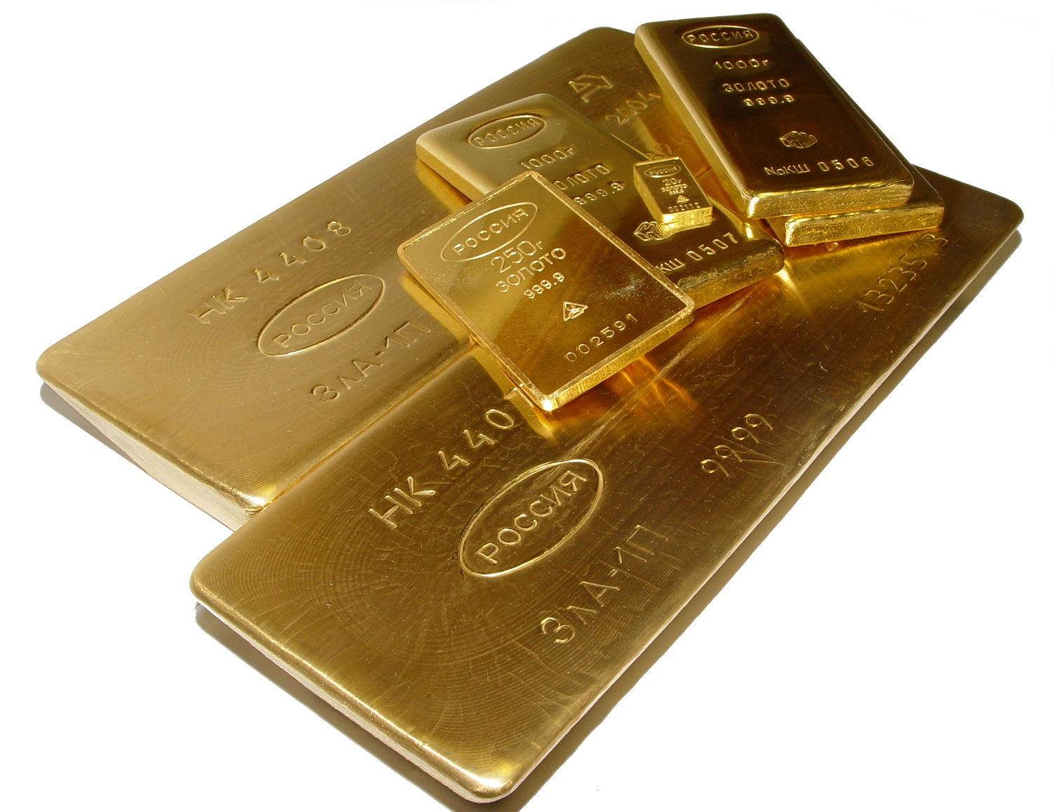 Gold from Russian bank